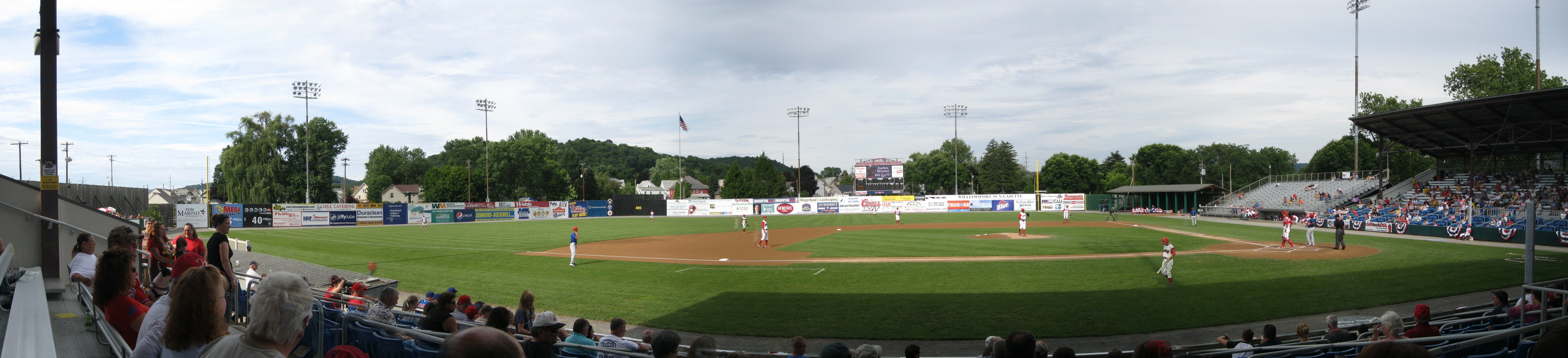 Panorama of baseball game at Bowman Field in WIlliamsport, Pennsylvania, USA with the minor league Williamsport Crosscutters playing the Auburn Doubledays